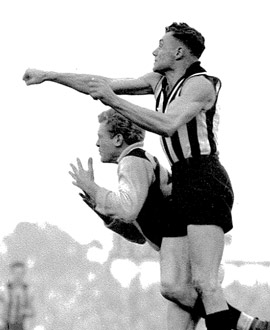 Photograph of Gordon Hocking in the early 1940s